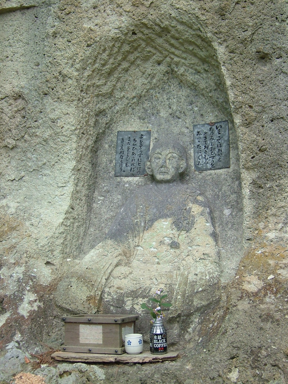 This is one of 33 images of the boddhisatva Kan'non carved in Iwabuyama (Mount Iwabu) in Nakagawa, Nanyo City, Yamagata Prefecture, Japan. I took the photo with a digital camera on 29 October 2005.